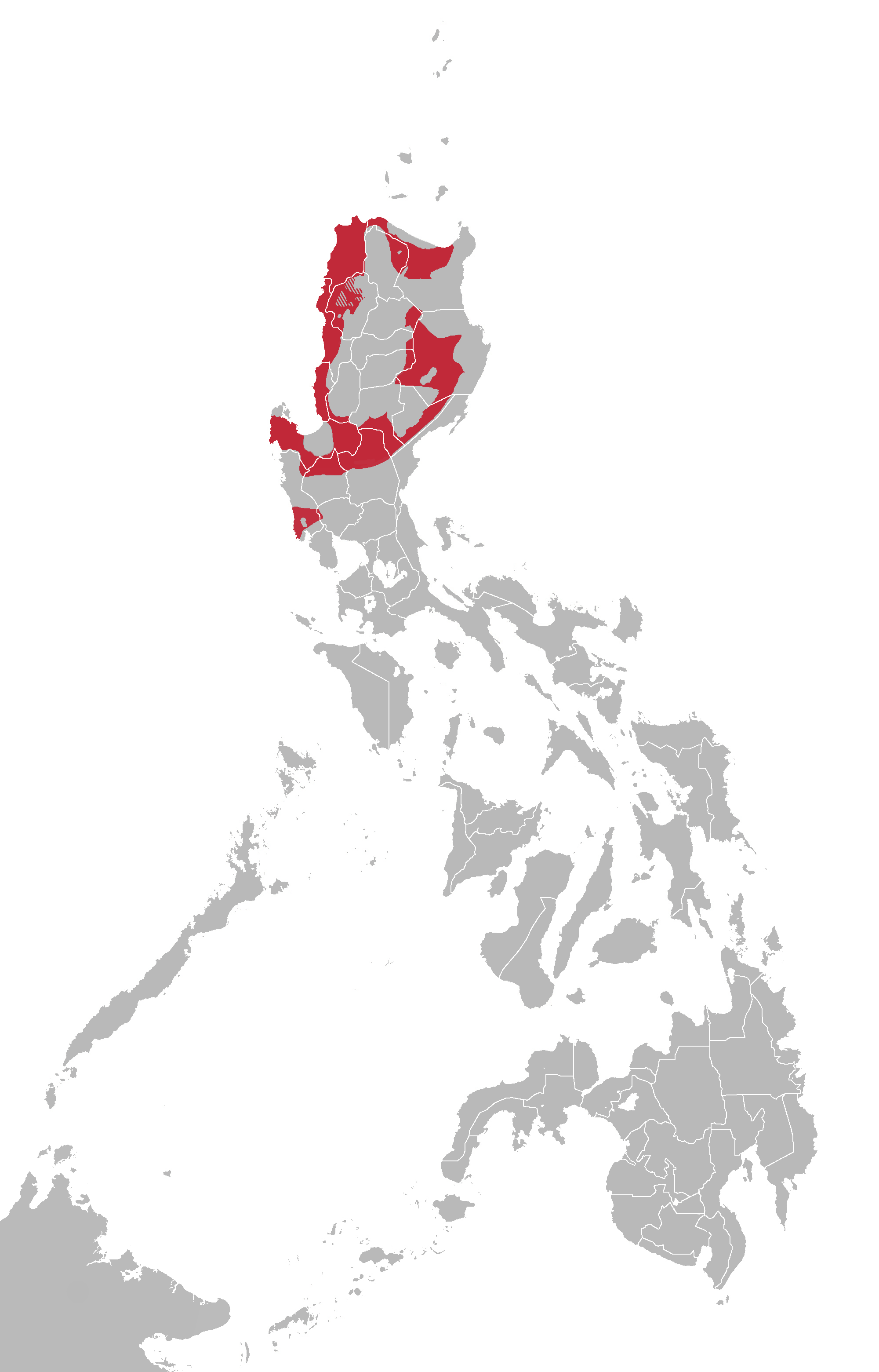 Ilokano language map based on Ethnologue